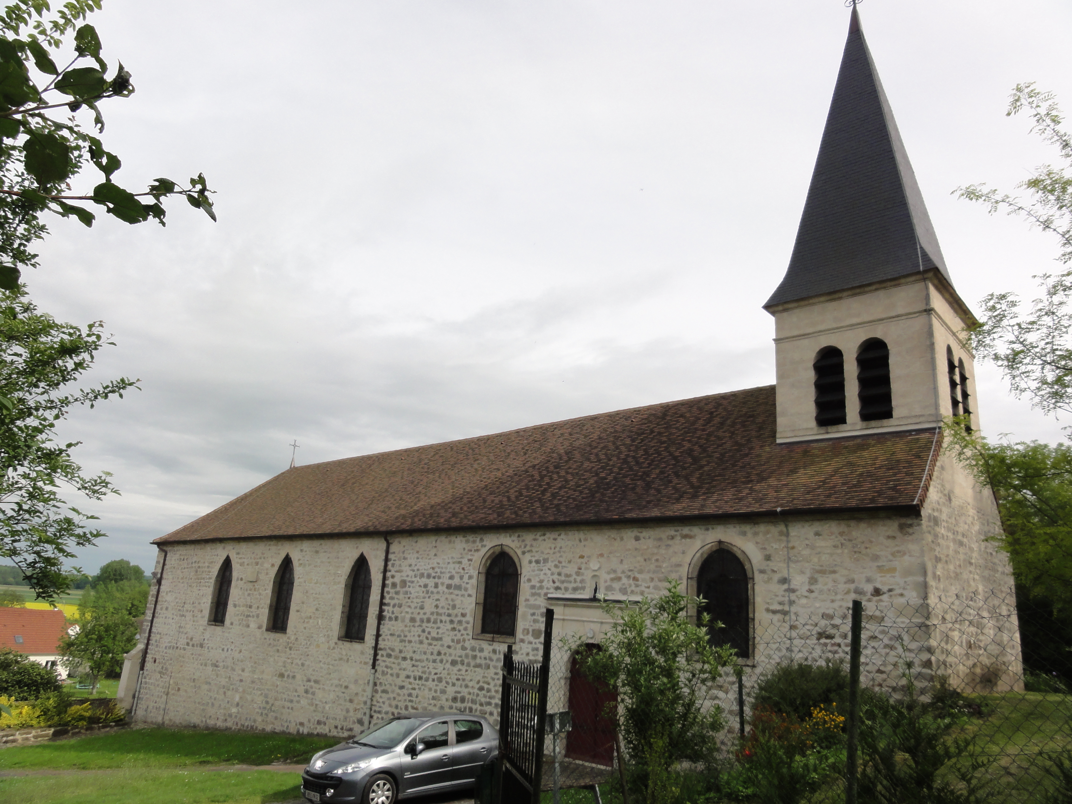 Eppes (Aisne)Église Notre Dame et Saint Nicolas